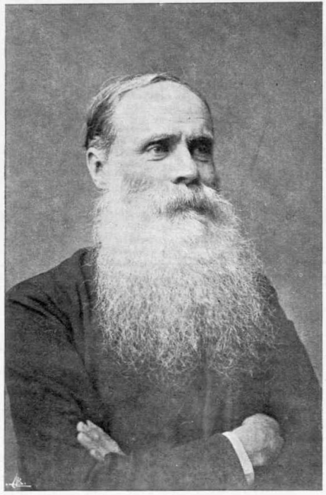 Portrait of Jaime de Magalhães Lima